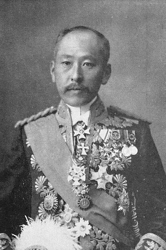 Masanao Inaba